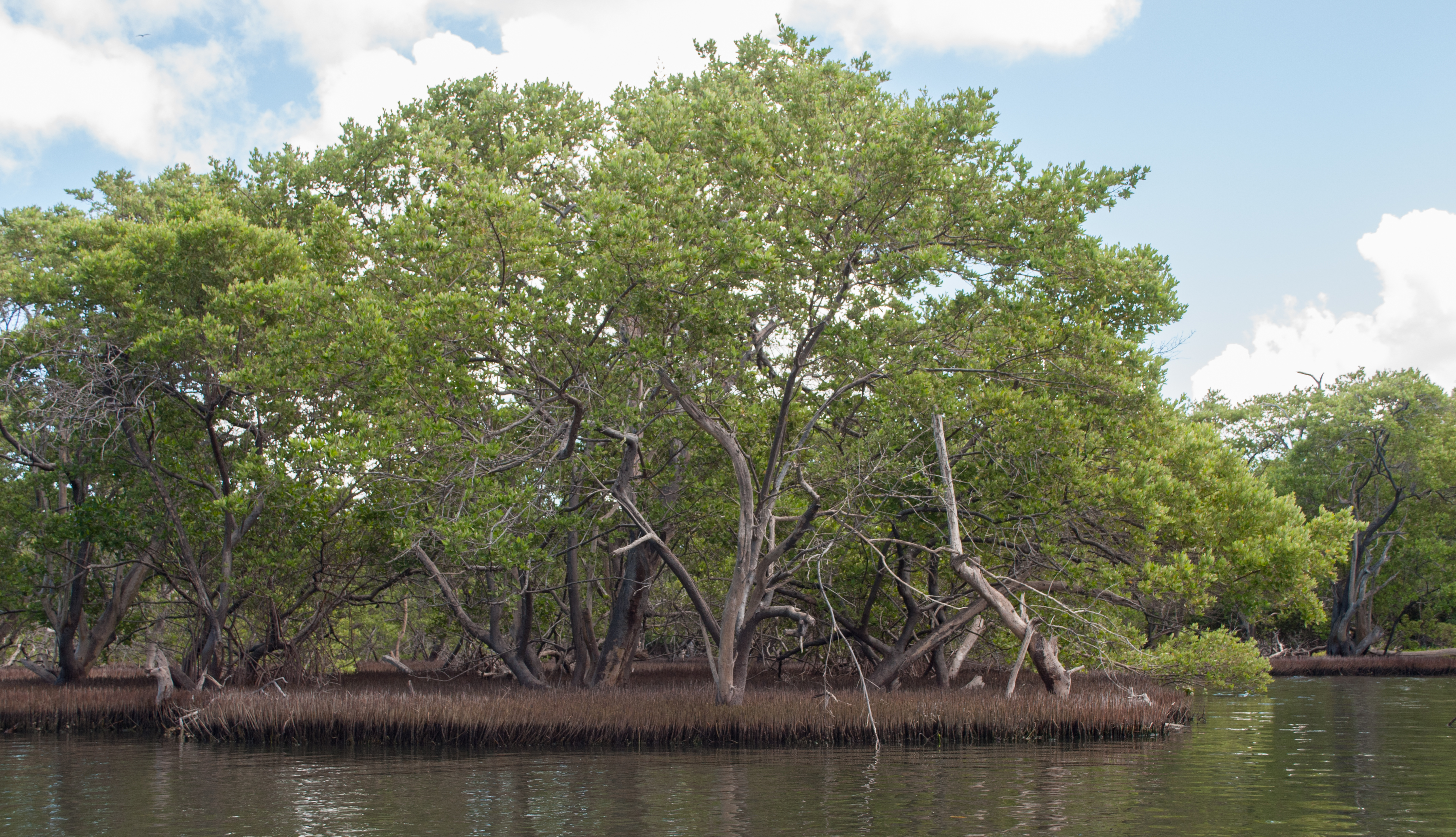 Mangrove in La Restinga